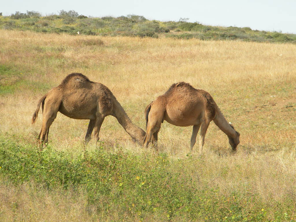 Wildlife and Plants of Israel